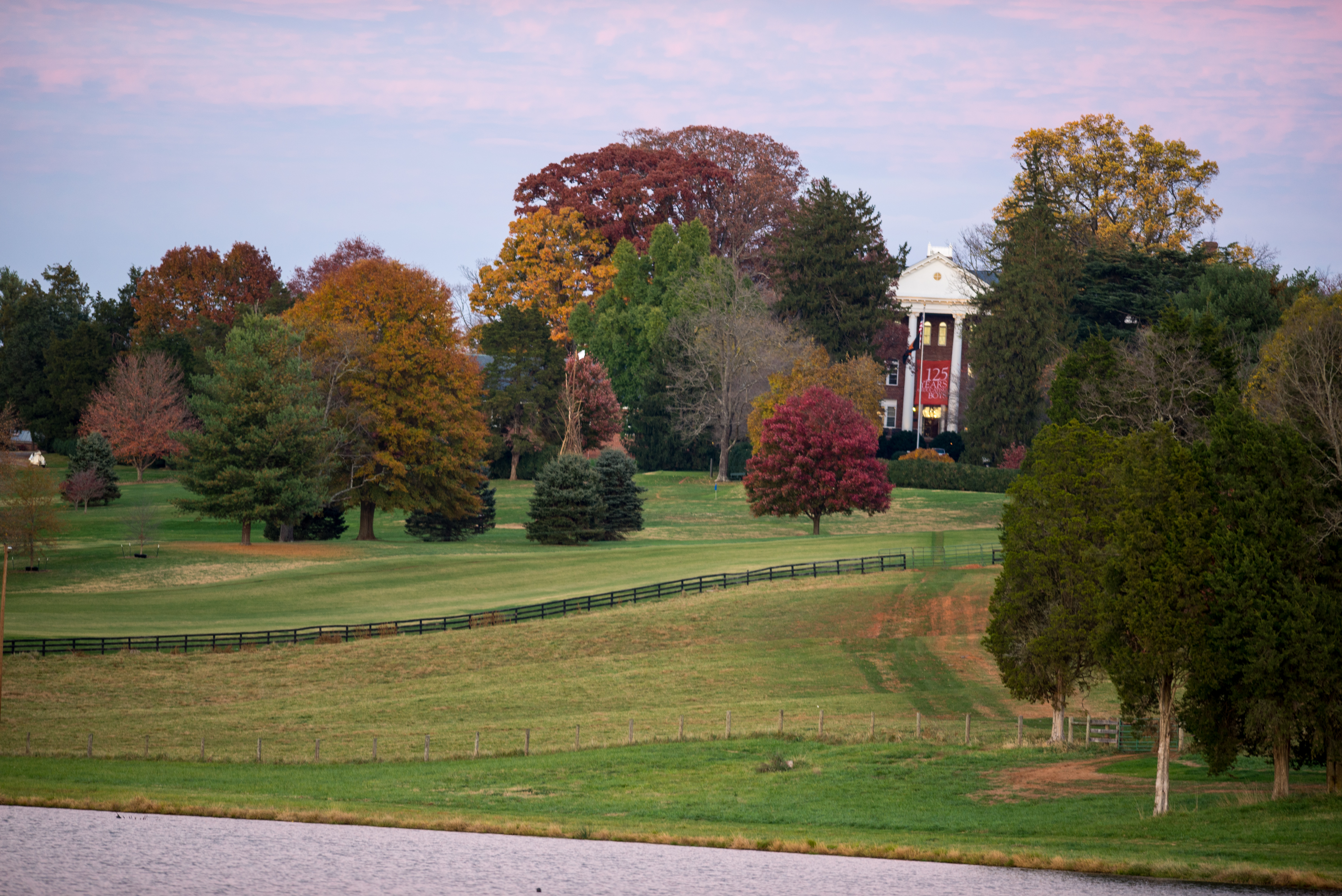 View of Walker Building at Woodberry Forest School at sunset.